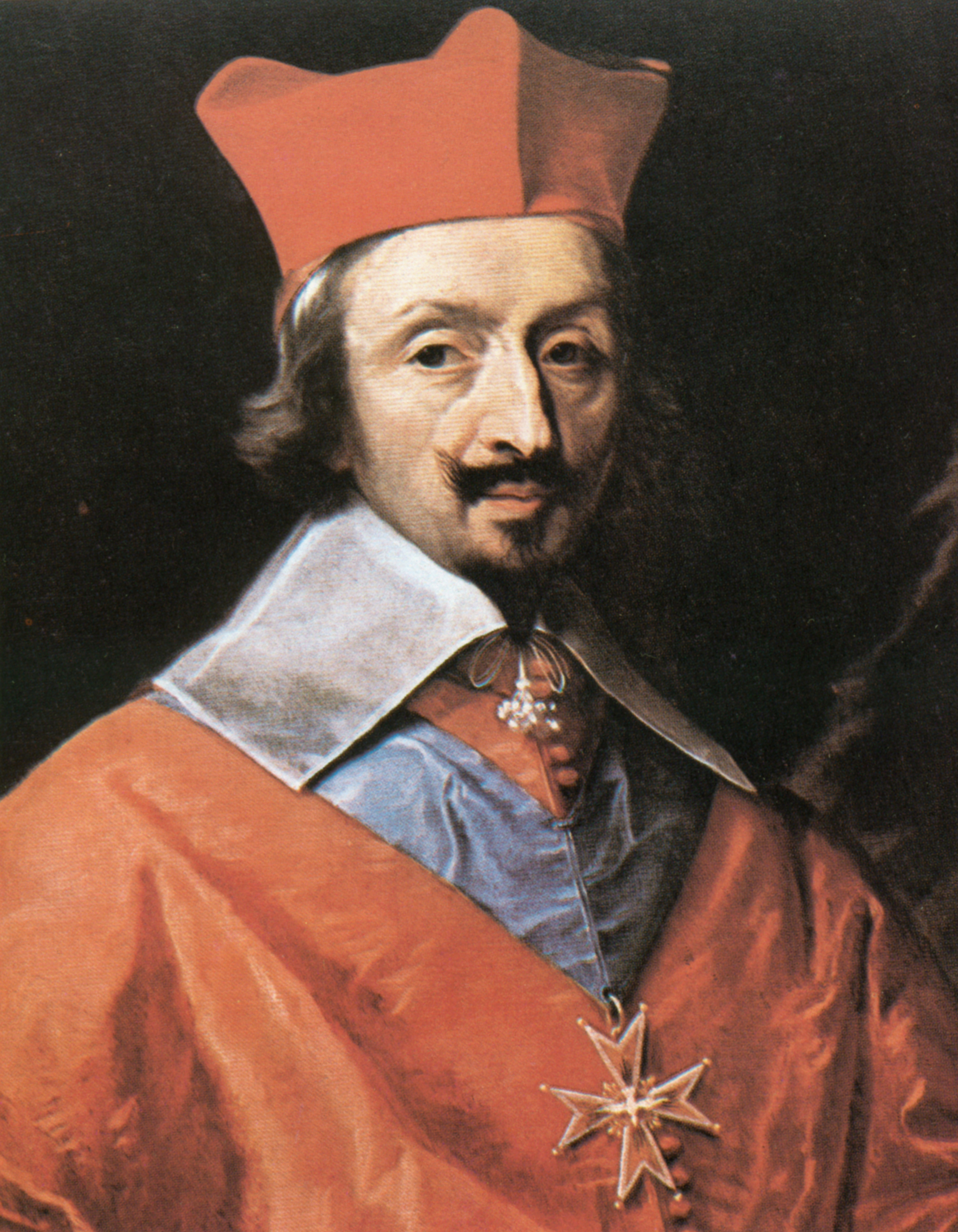 Portrait of Armand Jean du Plessis, Cardinal Richelieu by Philippe de Champaigne scanned from the book Jan Baszkewicz "Richelieu", edited by Państwowy Insttytut Wydawniczy, 1984